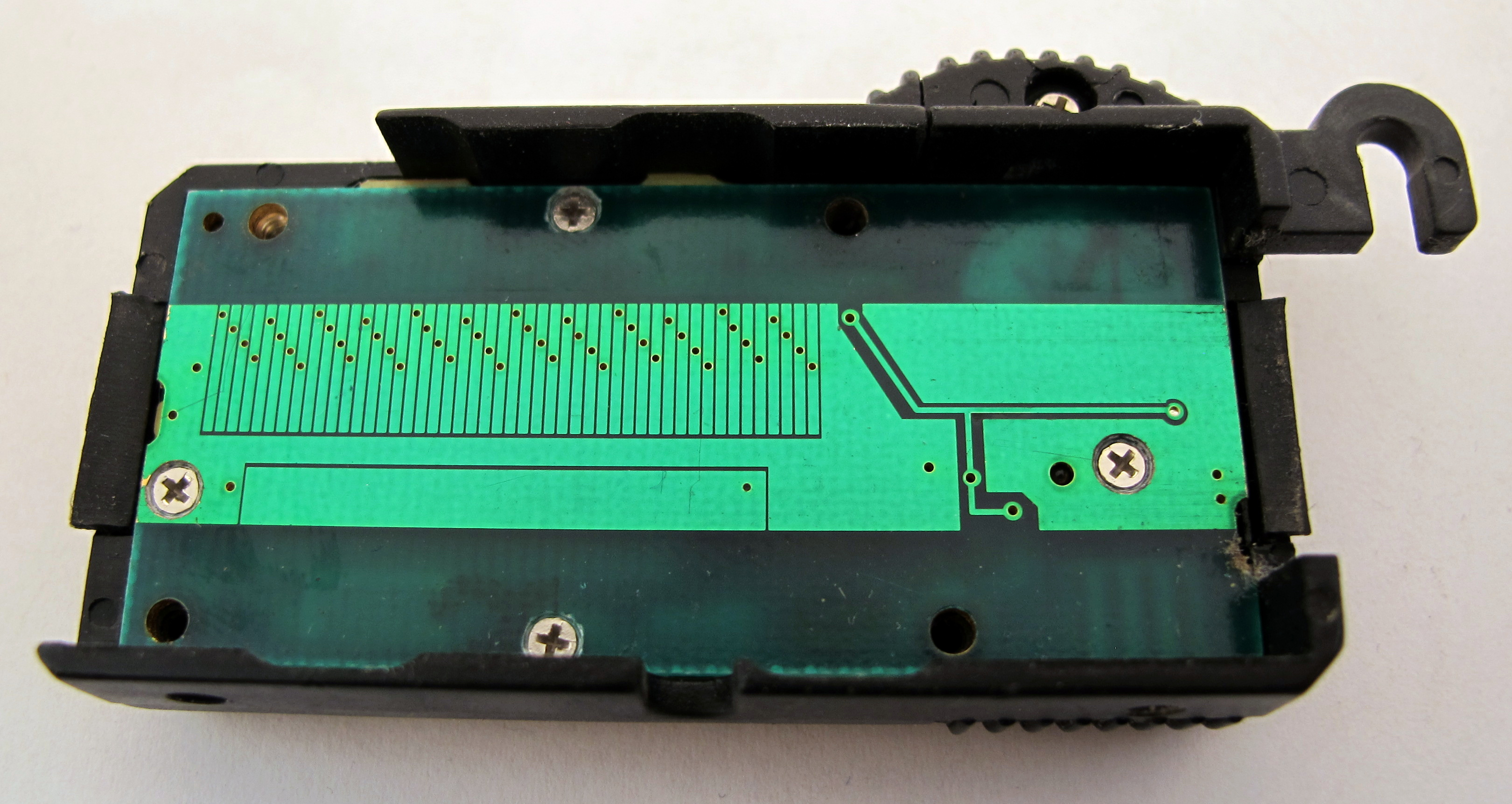 Digital caliper: Sensing side of the PCB showing capacitive linear encoder pads inside the slider. Small vertical bars are connected in 8 sets of 6 groups with horizontal traces on the other side through the diagonally arranged vias.